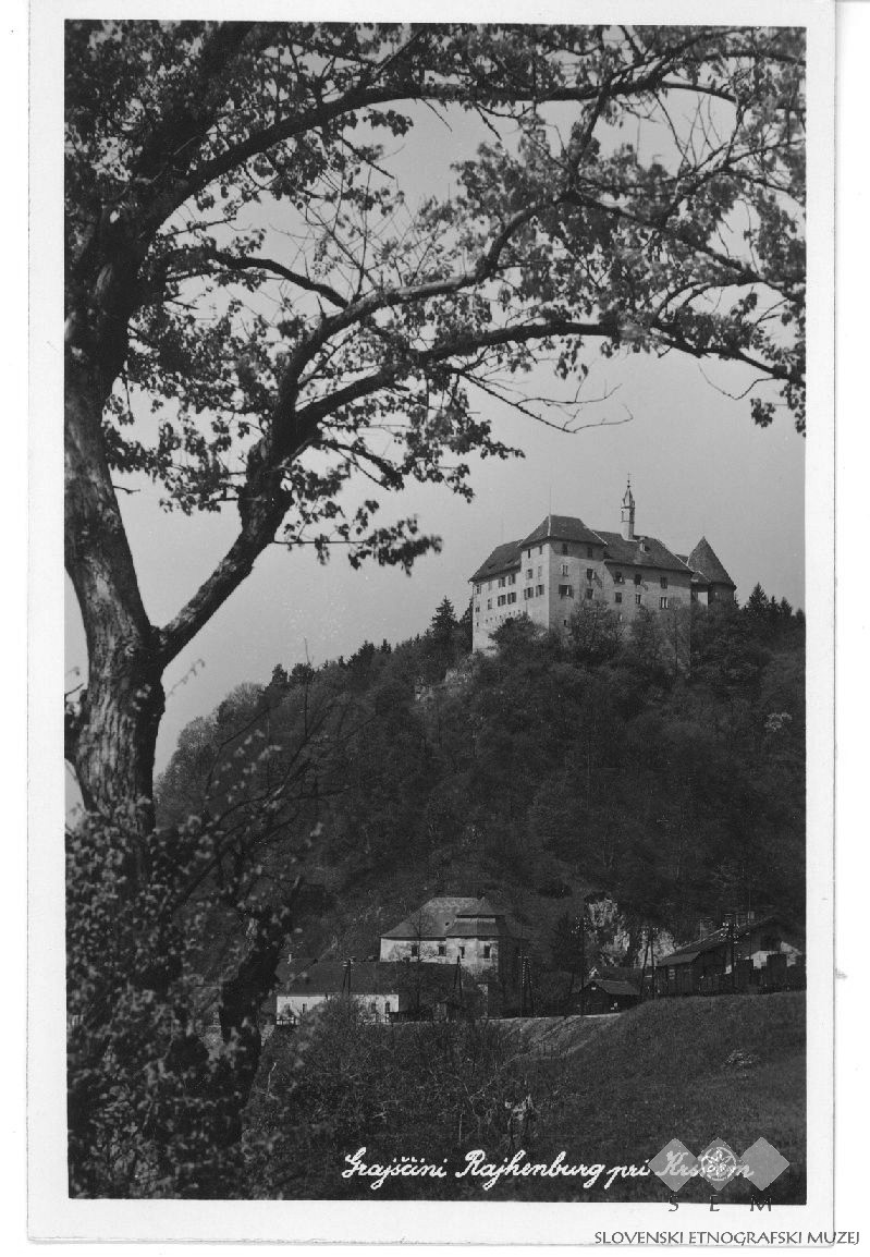 Postcard of Brestanica Castle